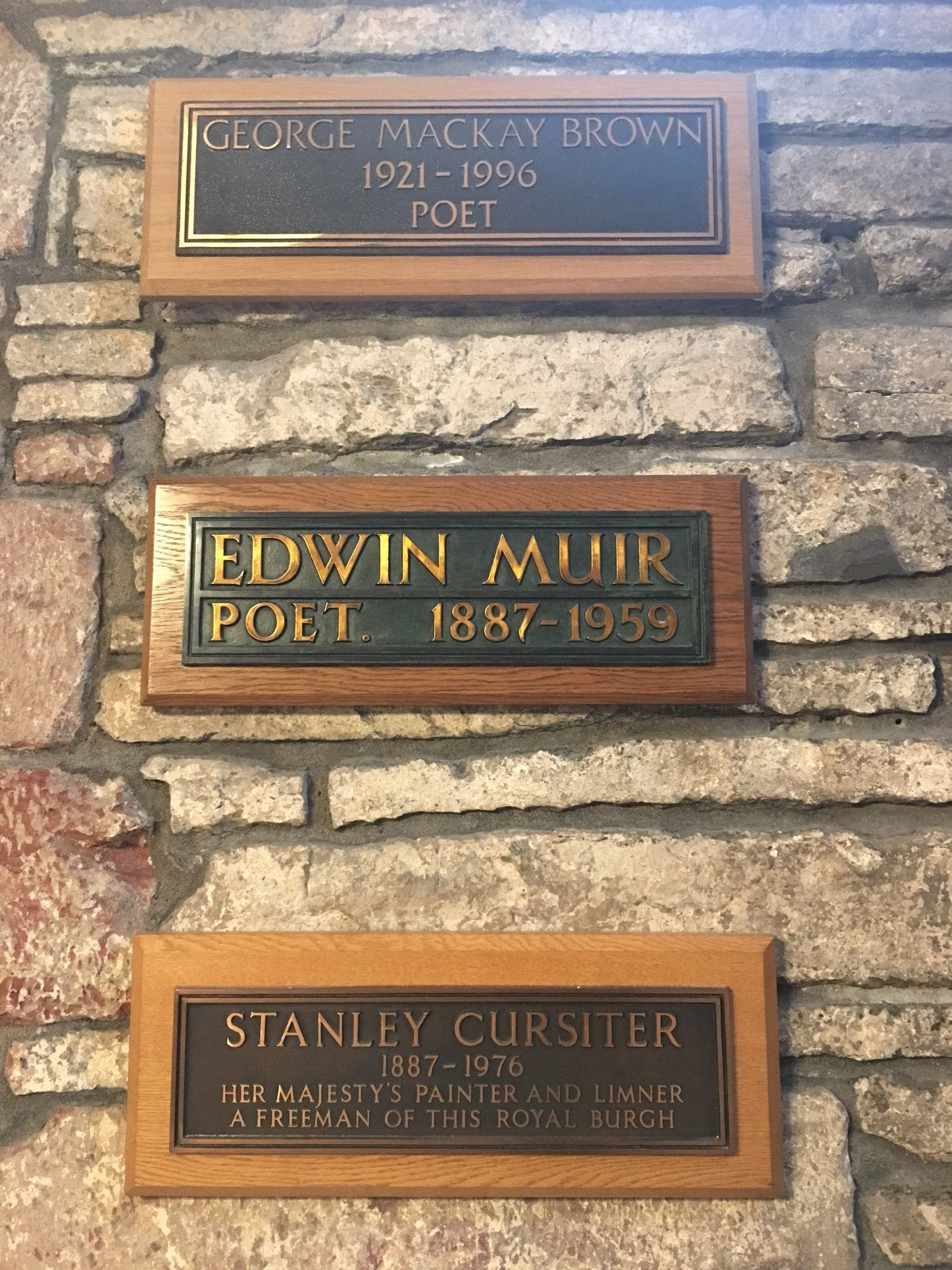 Memorial to George Mackay Brown, Edwin Muir and Stanley Cursiter in Kirkwall Cathedral, Orkney